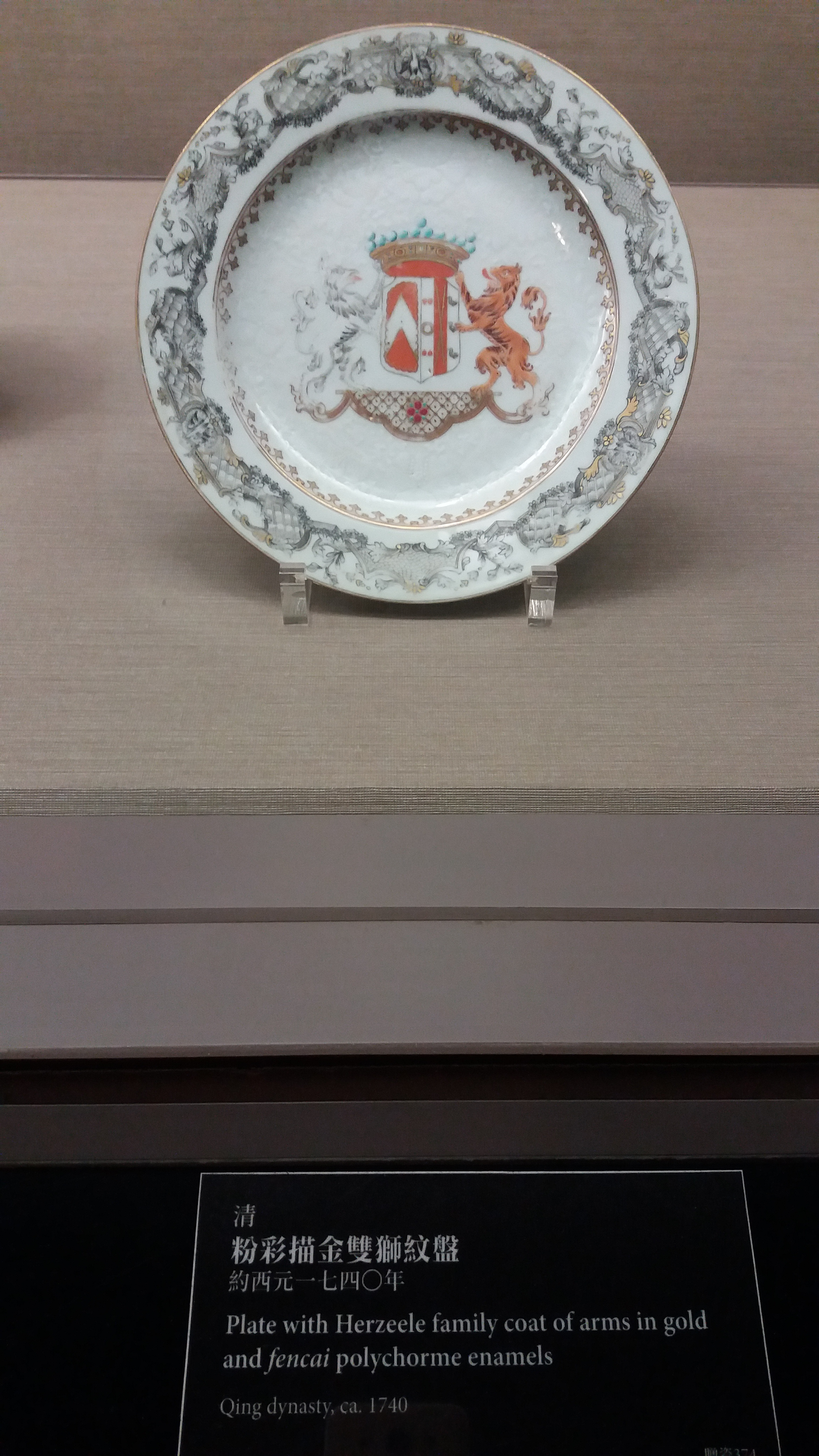 Plate with the arms of the Herzeele family